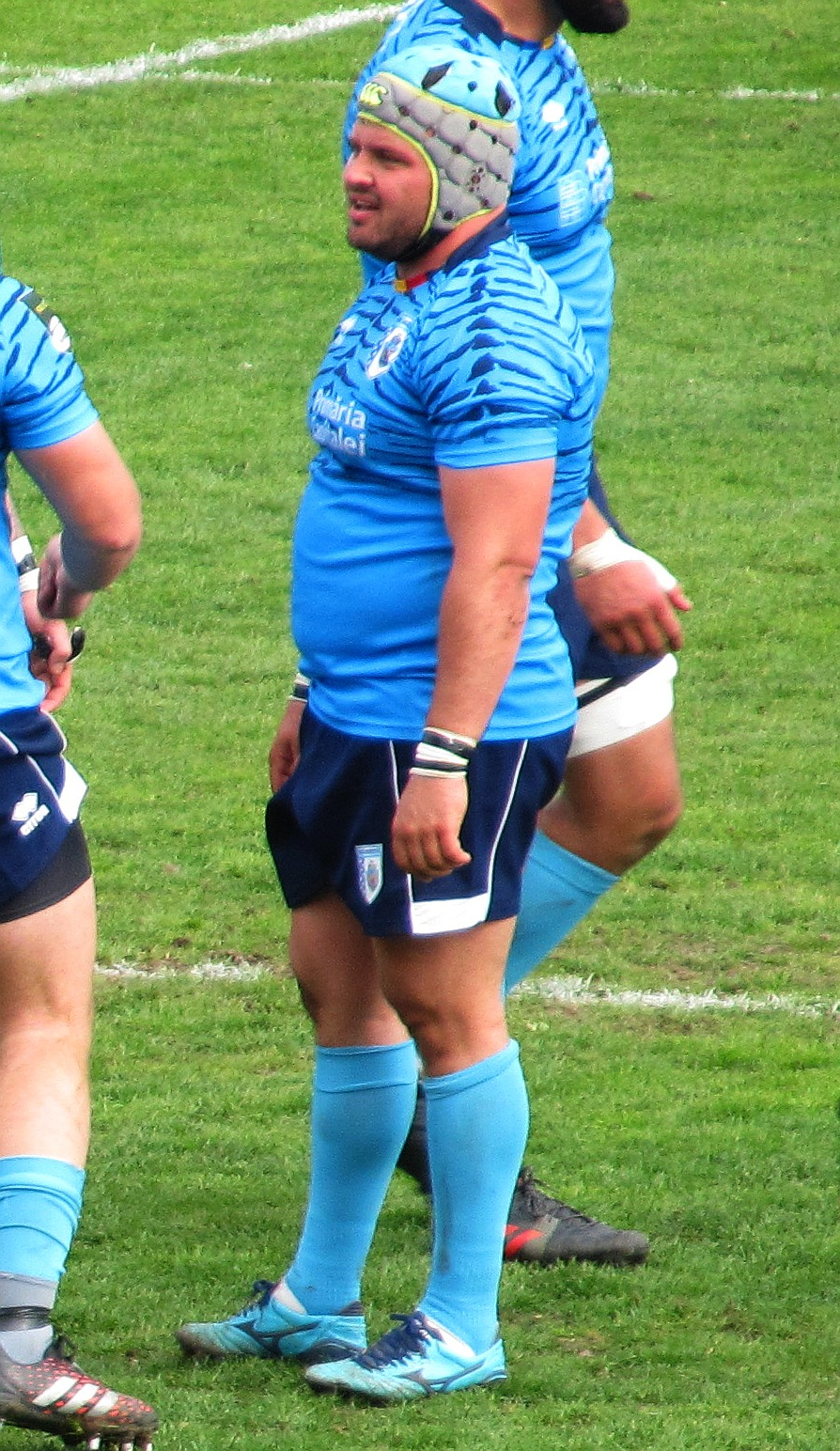 Romanian rugby union football player Florin Bărdașu during the 2019 Cupa României Final match between his team, CSM București, and rivals Timișoara Saracens in March 2019